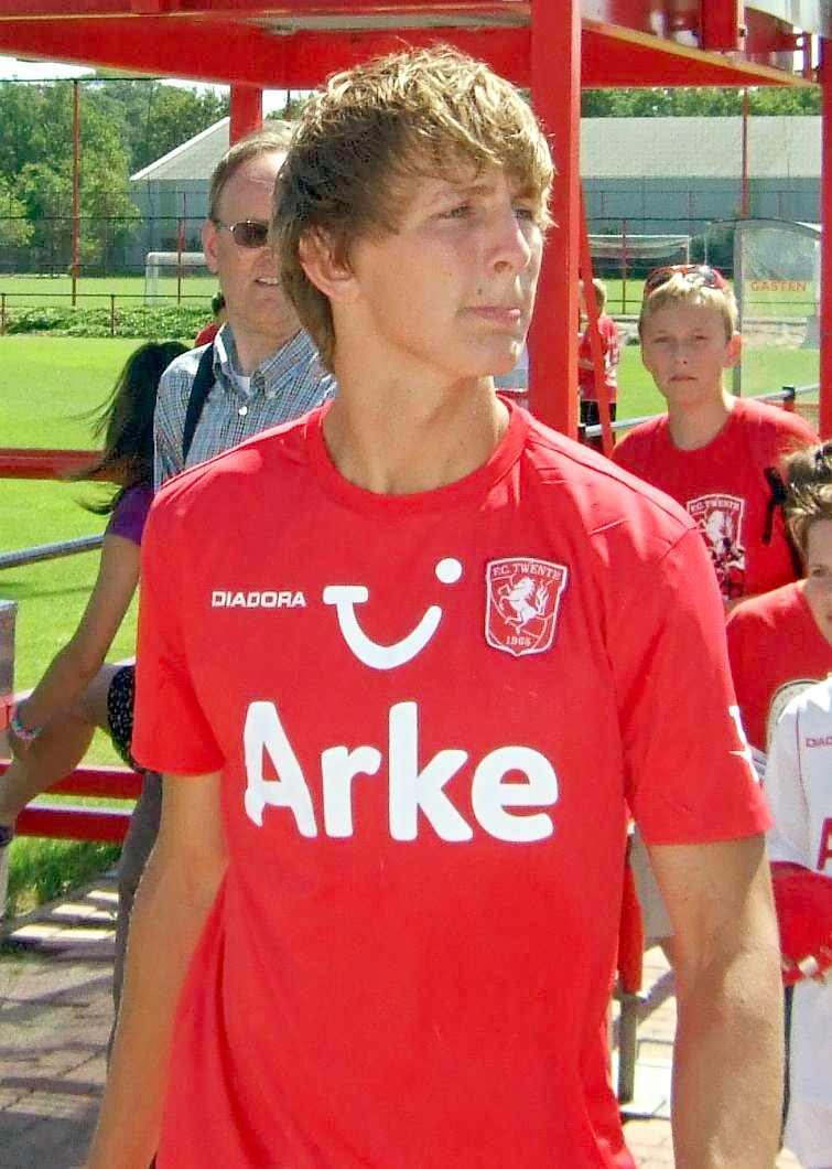 FC Twente player Luuk de Jong